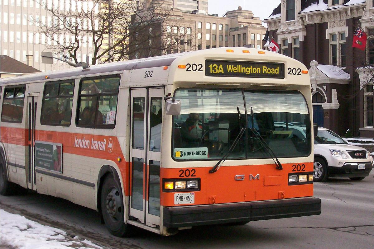 General Motors Classic bus in service with London Transit, Ontario